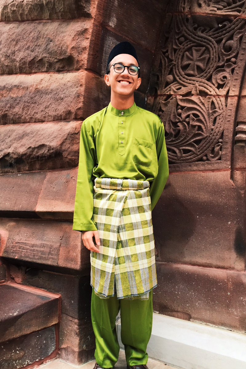 Wearing traditional clothing called baju melayu.